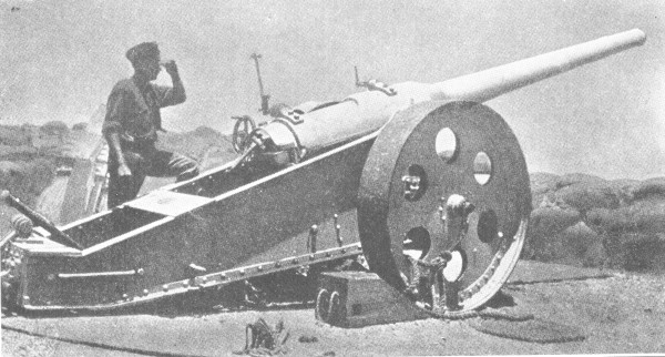 Photograph of British 4.7 inch Q.F. gun, on "Percy Scott carriage" developed during the Boer War, as used in South West Africa campaign in WWI.